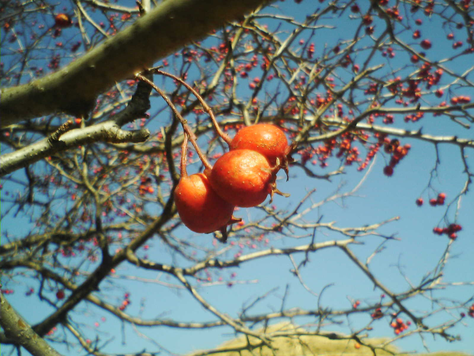 짧은설명 Fruit of Crataegus pinnatifida. Taken in Gyeonggi Provincial Museum, Yongin, in November 2005.